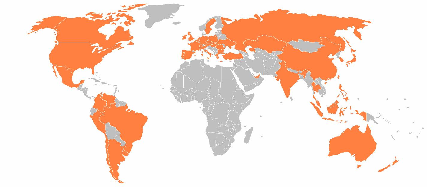 ING Group global locations